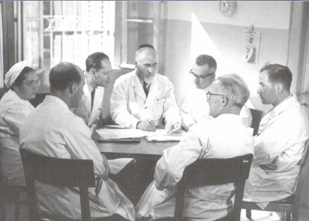 A doctors' consultation in Shaare Zedek Hospital in Jerusalem, circa 1953-1957. Center: The hospital's second director, Dr. Schlesinger.